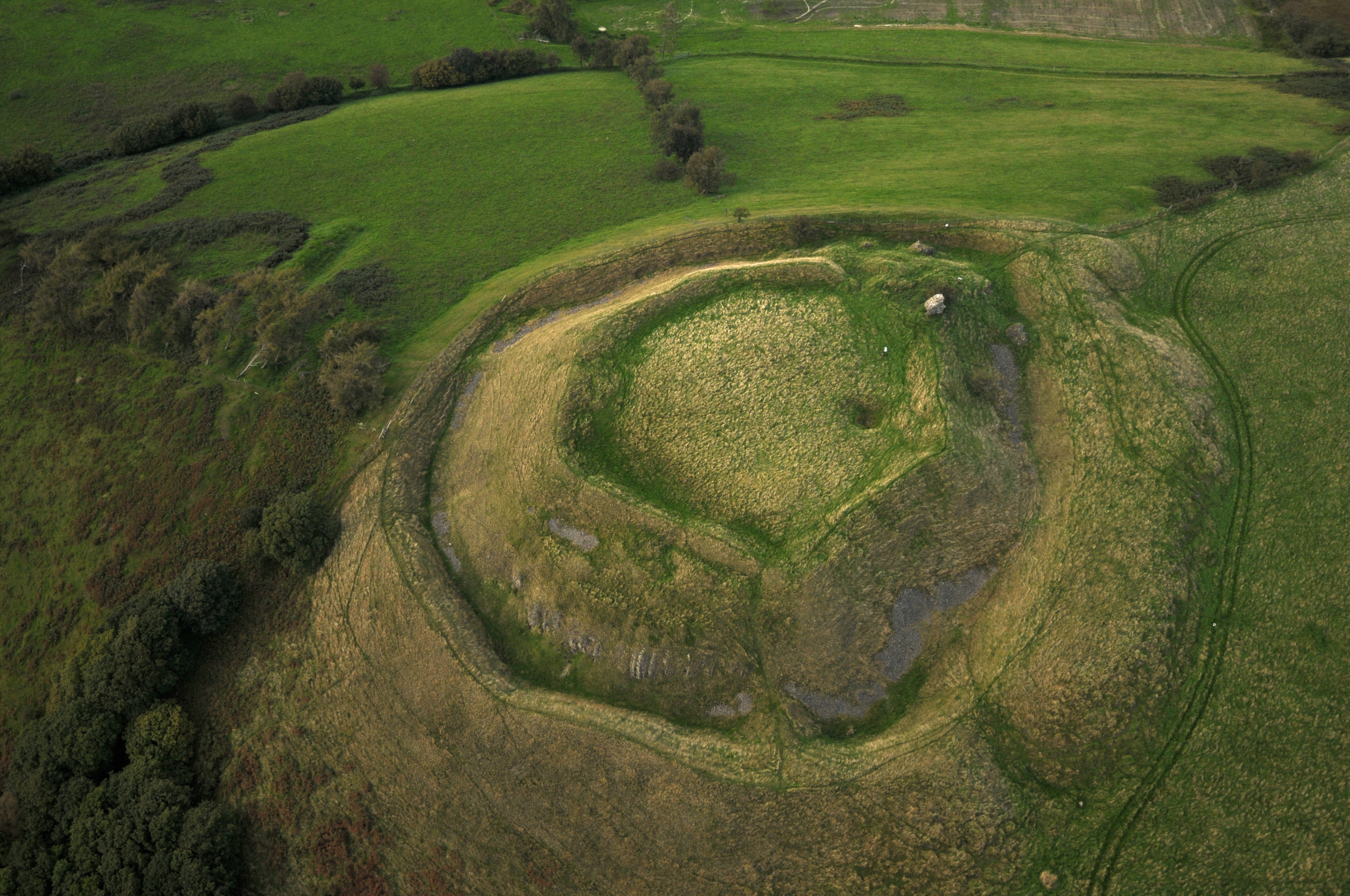 An aerial view of Tinboeth Castle.